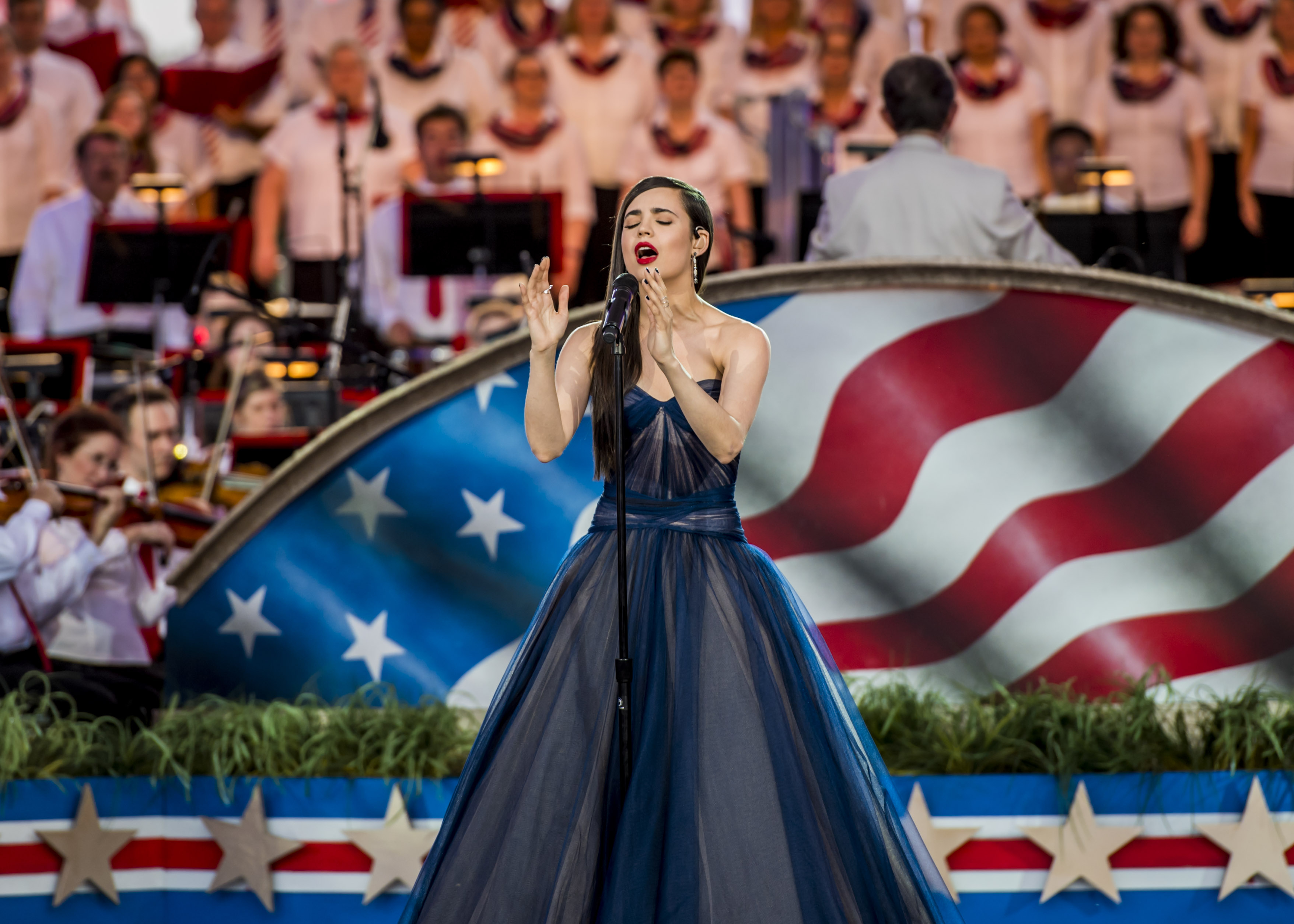 WASHINGTON, DC (July 3, 2017)--Performers, support staff and attendees gather on the Capitol grounds for dress rehearsal of the annual "A Capitol Fourth" concert July 3, 2017. “A Capitol Fourth” is a free annual concert performed on the west lawn of the United States Capitol Building in Washington, D.C., in celebration of Independence Day each July 4. Broadcast live on PBS, NPR and the American Forces Network and presented by WETA, the concert is viewed and heard by millions across the United States and the world, as well as attended by more than half a million people at the Capitol. The concert traditionally features elements of the 3rd U.S. Infantry Regiment (The Old Guard), the United States Army Presidential Salute Guns Battery, the U.S. Army Band (Pershing's Own), the National Symphony Orchestra and the Choral Arts Society of Washington, who provide much of the music during the show for various celebrity artists. A celebrity host and a variety of guests entertain and pay tribute to their country throughout the evening. (Department of Defense photos by Reese Brown)